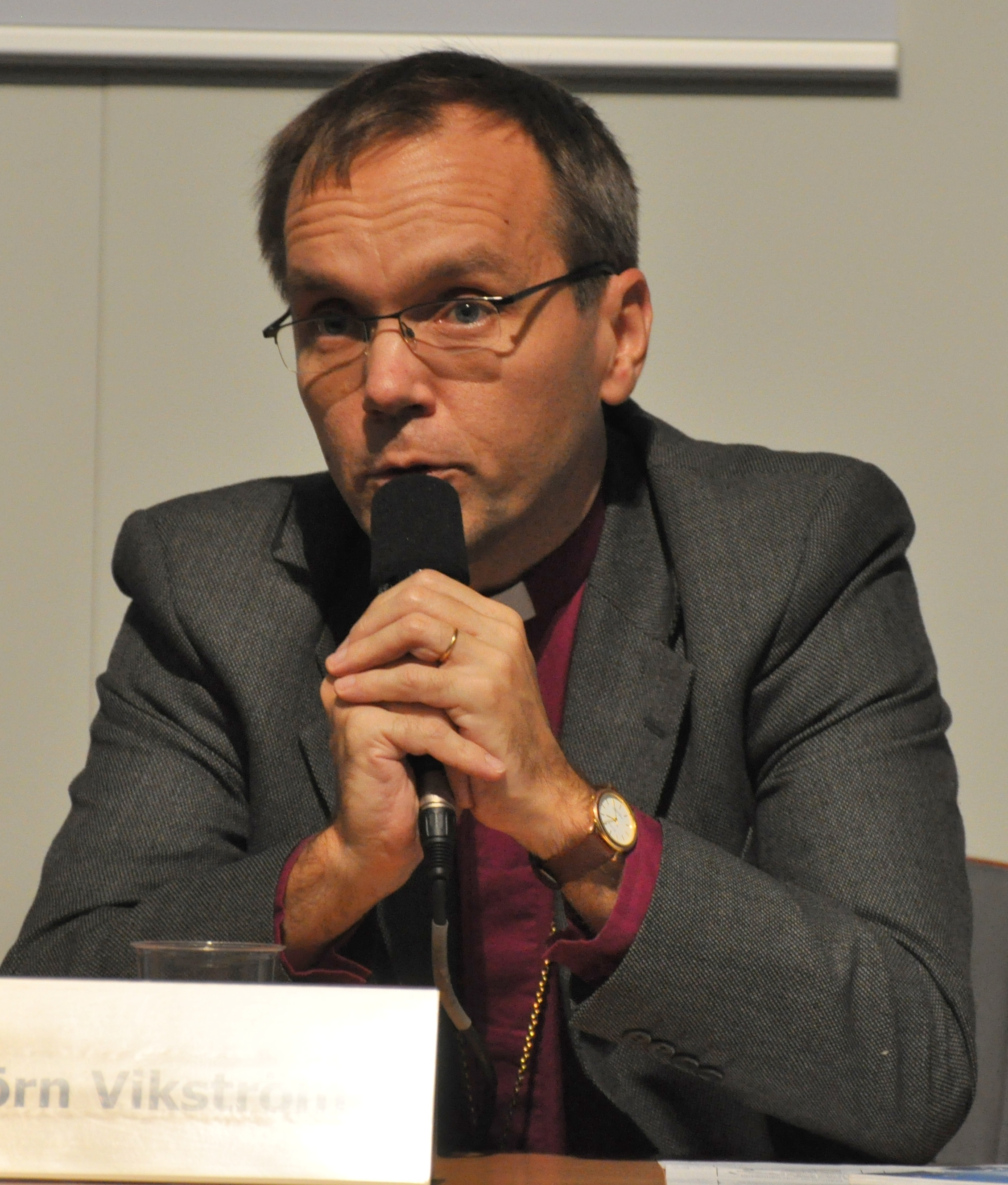 Evangelical Lutheran bishop of Porvoo Björn Vikström at the Helsinki Book Fair 2010.